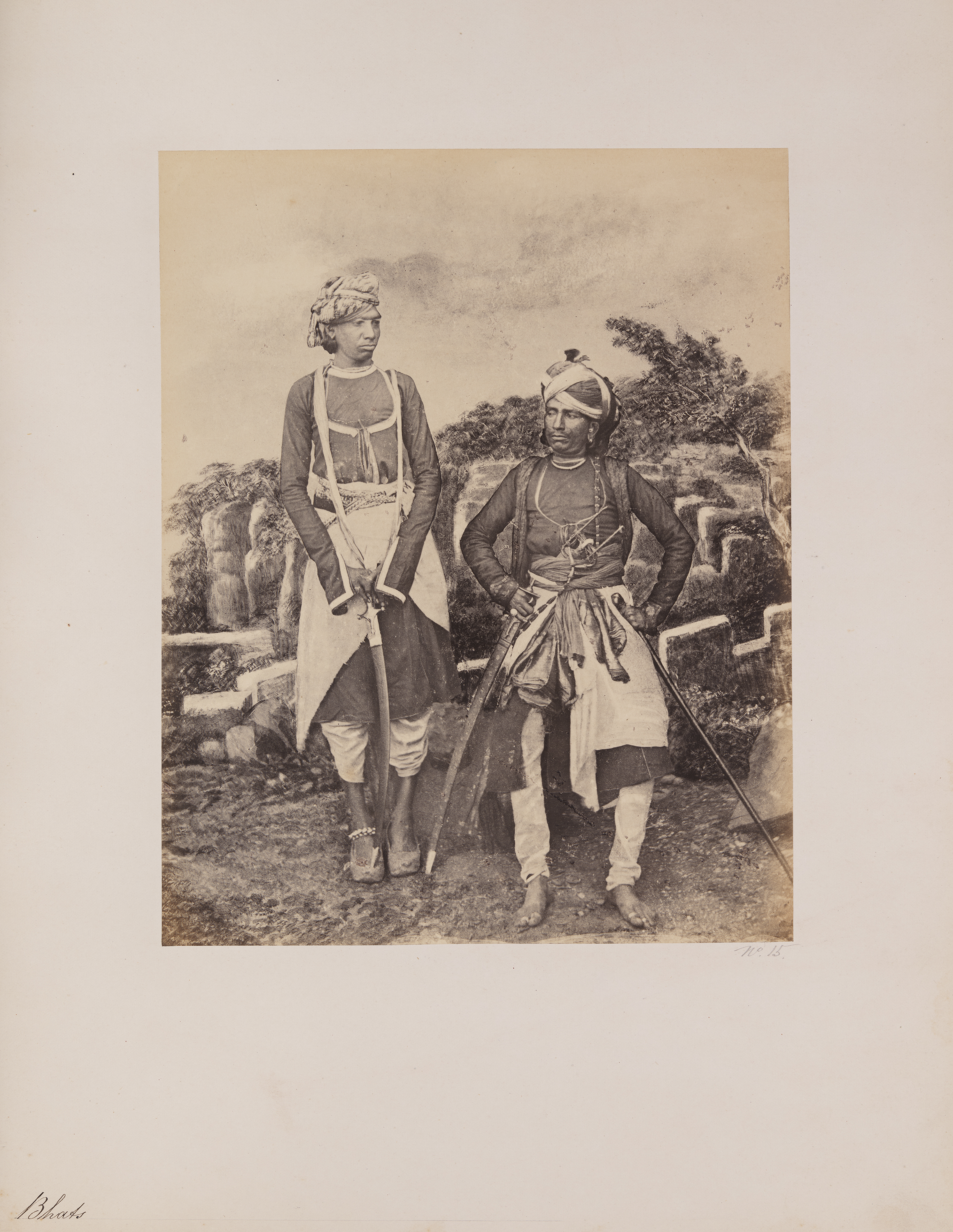 Title: Bhats Creator: Johnson, William Date: ca. 1855-1862 Part Of: Photographs of Western India Series: Photographs of Western India. Volume I. Costumes and Characters. Place: India Physical Description: 1 photographic print: albumen; 26 x 20 cm on 42 x 35 cm mount File: vault_ag2002_1407x_1_015_bhats_opt.jpg Rights: Please cite Southern Methodist University, Central University Libraries, DeGolyer Library when using this image file. A high-quality version of this file may be obtained for a fee by contacting . For more information, see: View Europe, India, and Asia: Photographs, Manuscripts, and Imprints